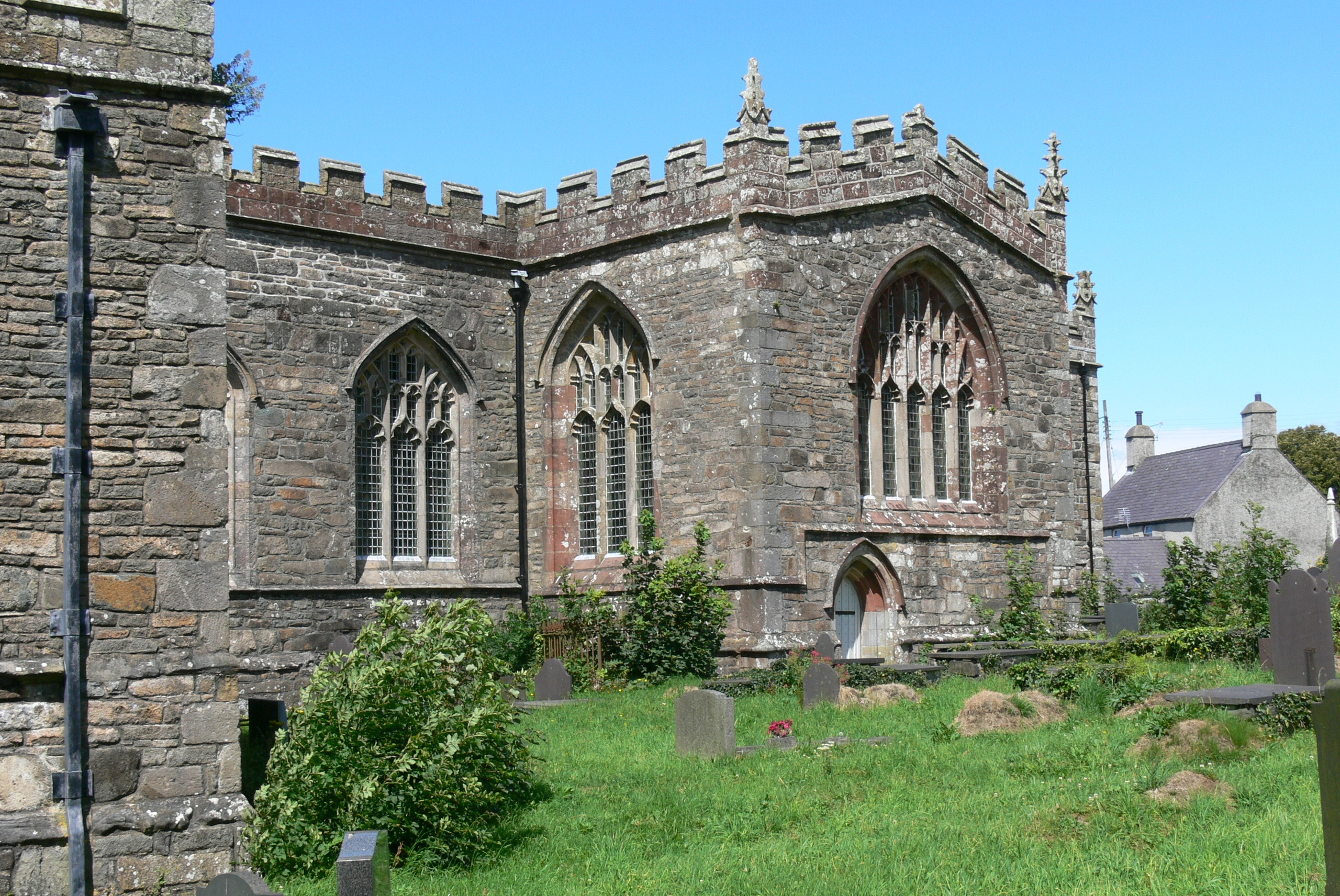 Clynnog Fawr ( Wales ). St Beuno church: Church and cemetery